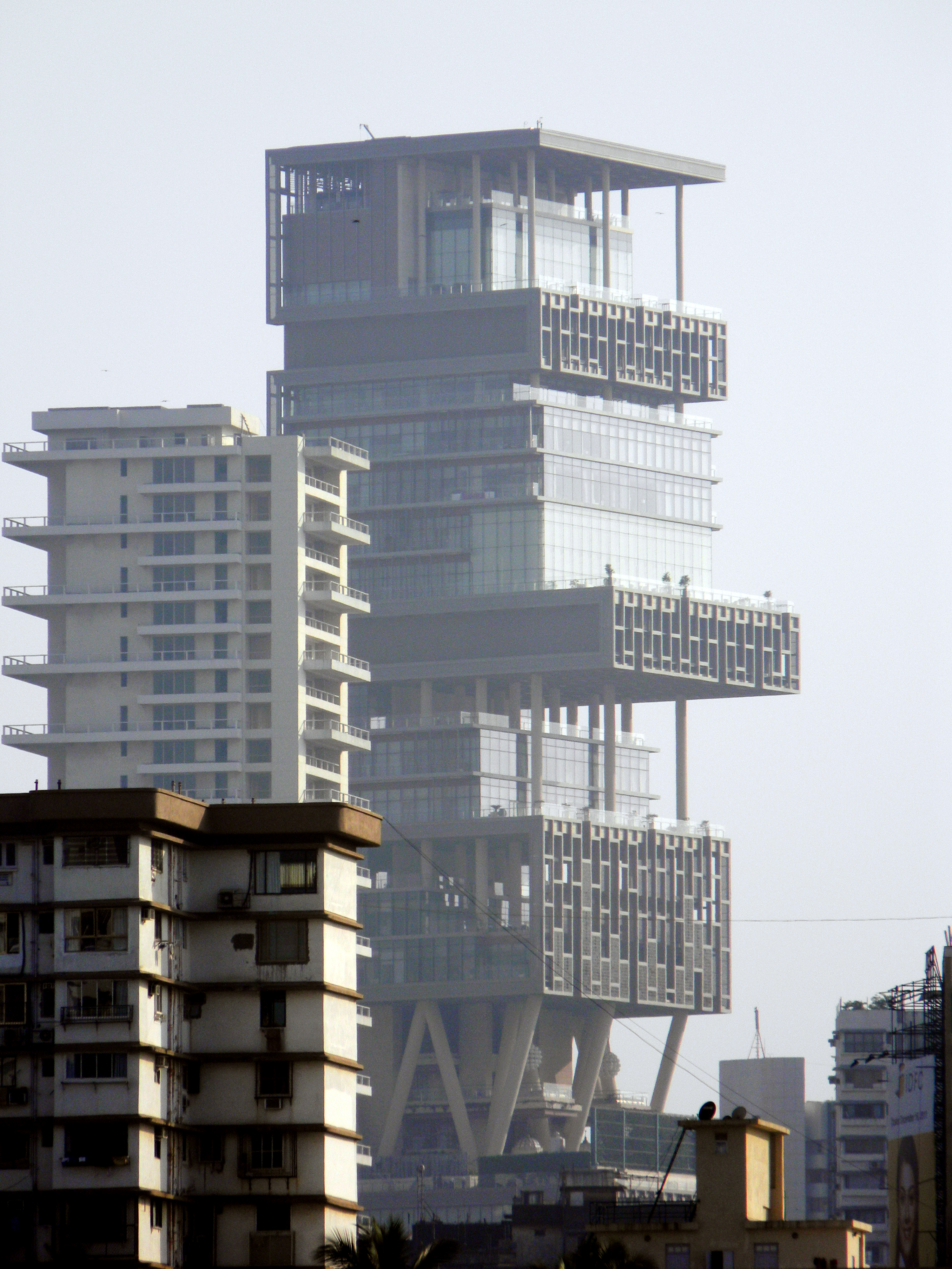 Mukesh Ambani' House Antilia in Mumbai, Antilia as seen from Haji Ali This media file is uploaded with Odia loves Wikipedia English |italiano |македонски |മലയാളം |ଓଡ଼ିଆ +/−